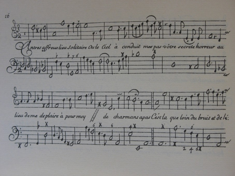 An air from Bacilly's Airs spirituels, (Paris, 1688).